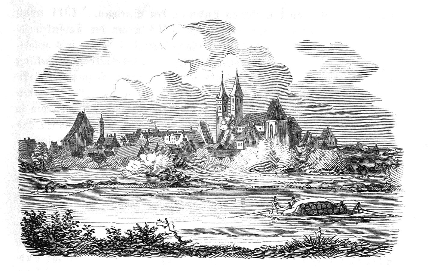 Image extracted from page 157 of above (page number relates to the digital version and can differ from the pagination within the book). Original held and digitised by the British Library. Note: The colours, contrast and appearance of these illustrations are unlikely to be true to life. They are derived from scanned images that have been enhanced for machine interpretation and have been altered from their originals.